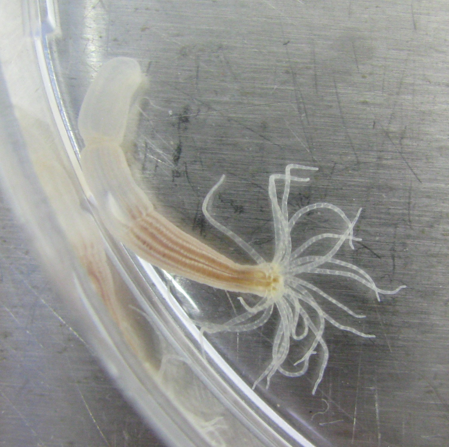 Nematostella vectensis in a Petri dish